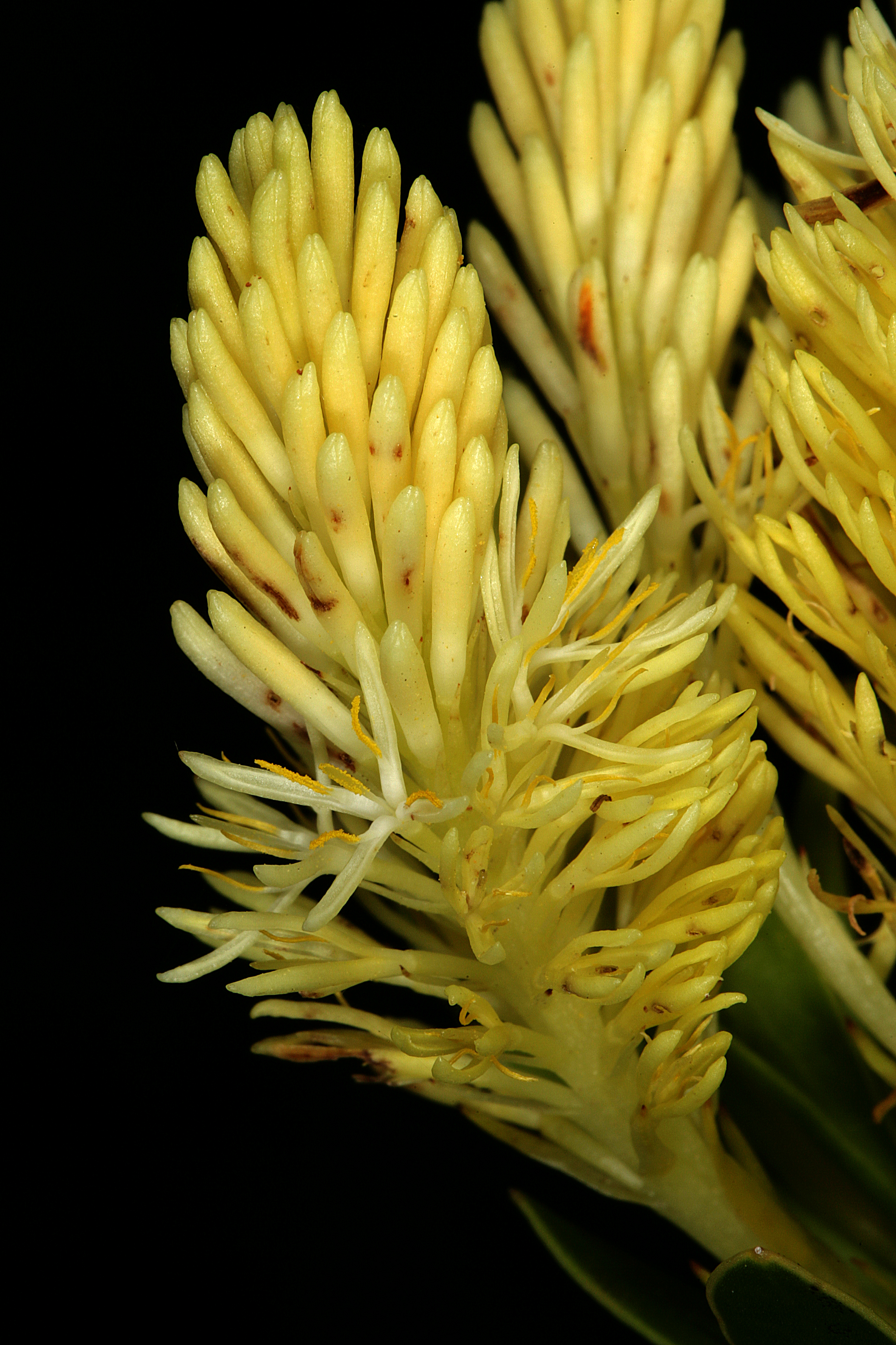 Aulax umbellata, male flowers; Fernkloof Nature Reserve, Hermanus, Western Cape, South Africa